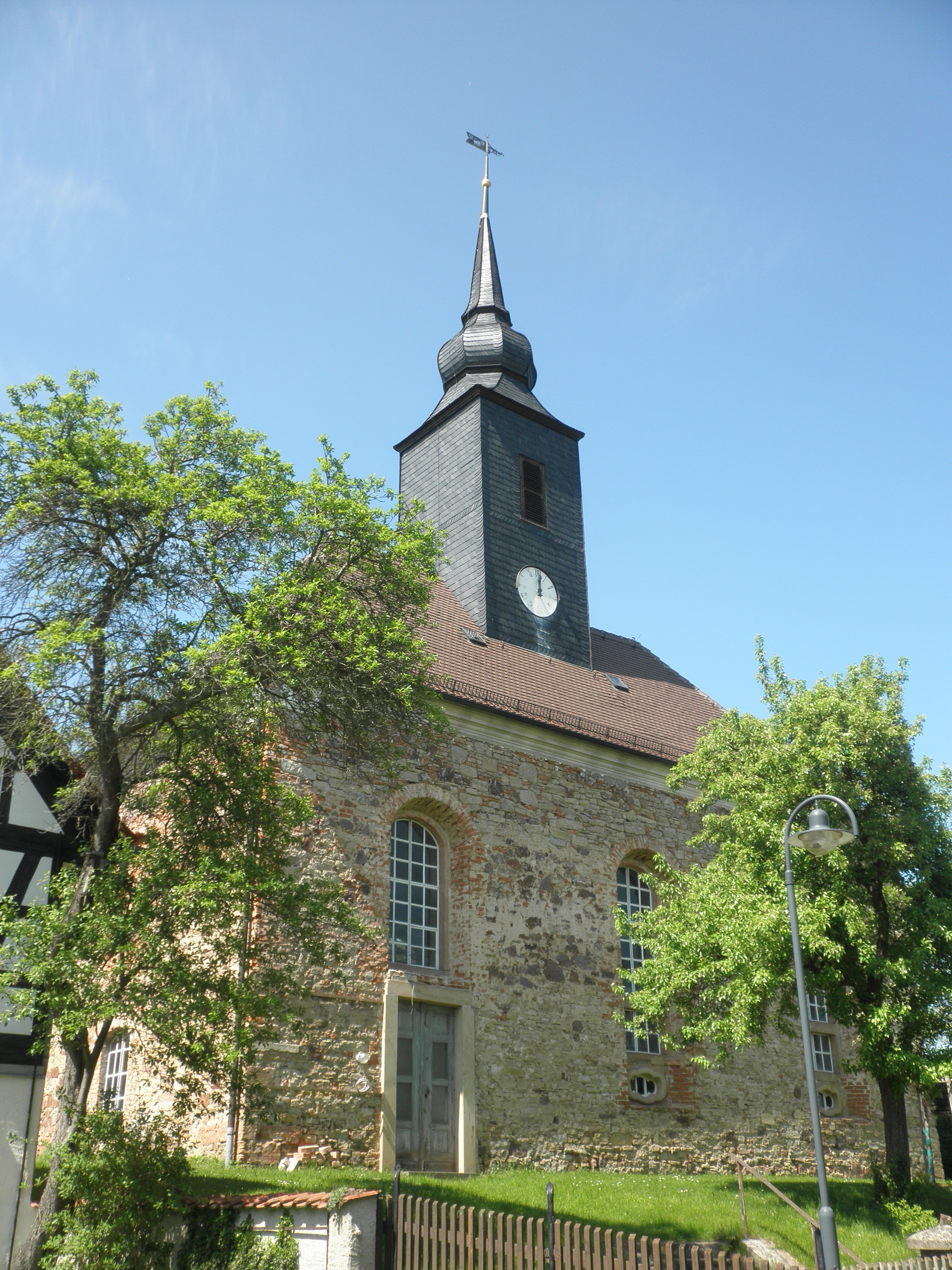 Church in Lohma (Nöbdenitz) in Thuringia